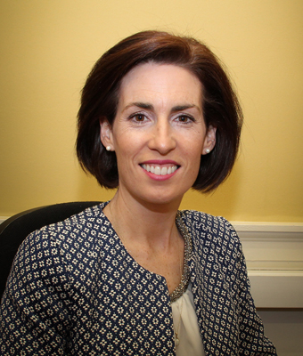 Official House of the Oireachtas photograph of Hildegarde Naughton